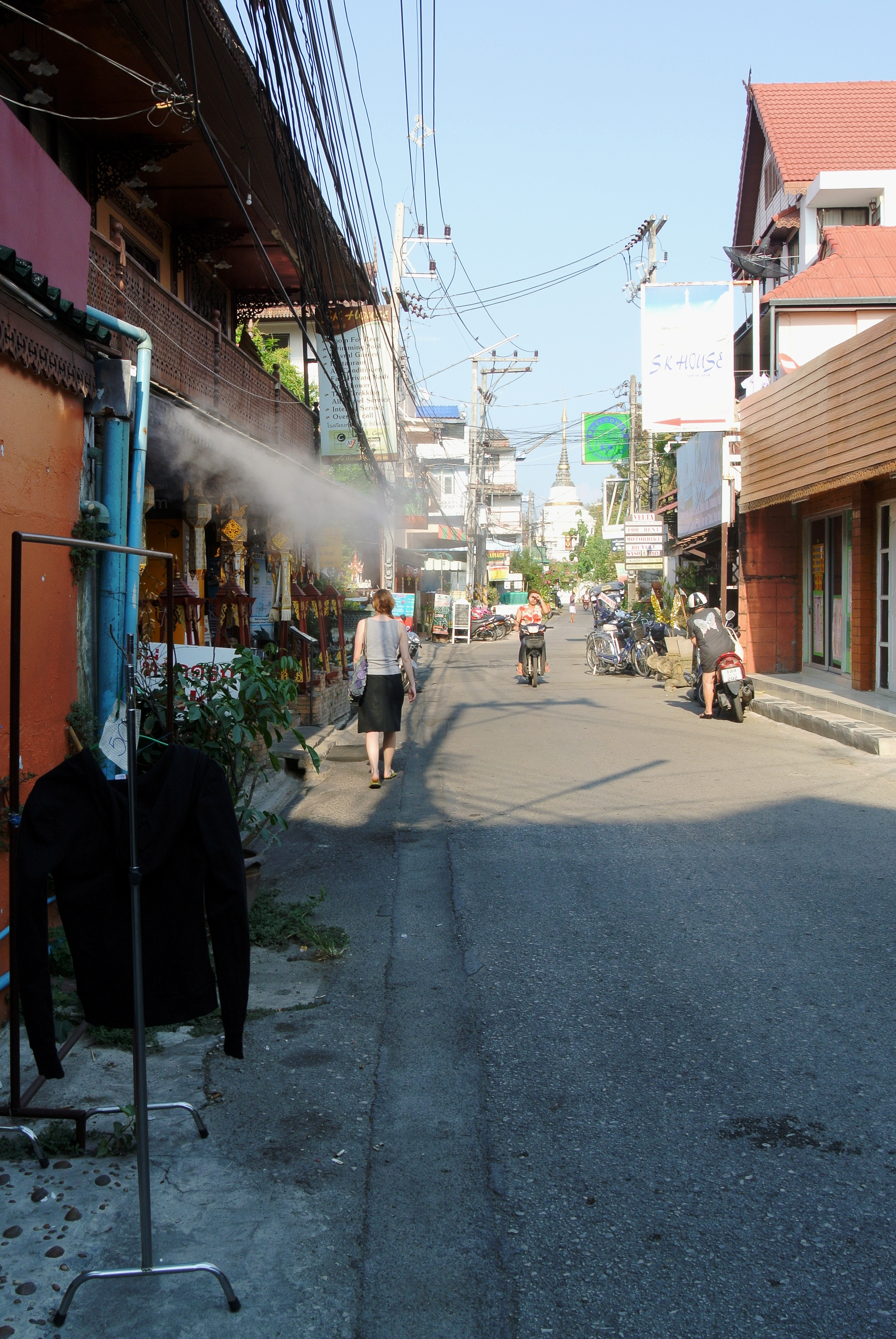 A soi in Chiang Mai (Moonmuang Soi 9).